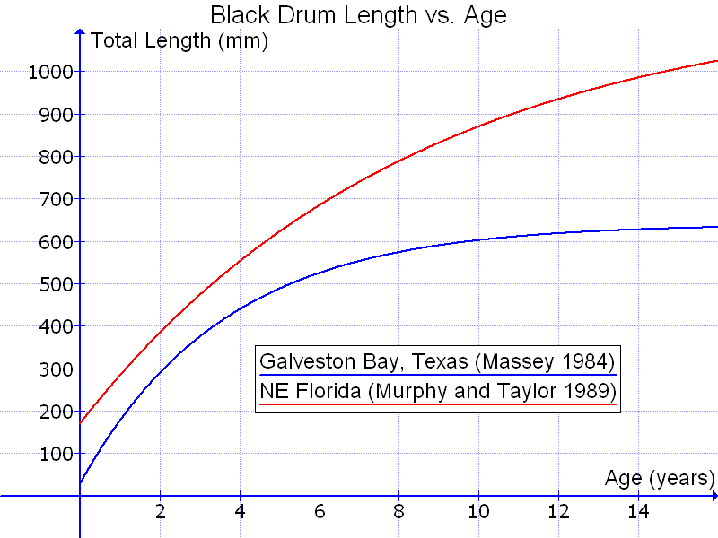 Plot of Length vs. Age for Black Drum fish. Two curves are shown from two sources/geographic locations.